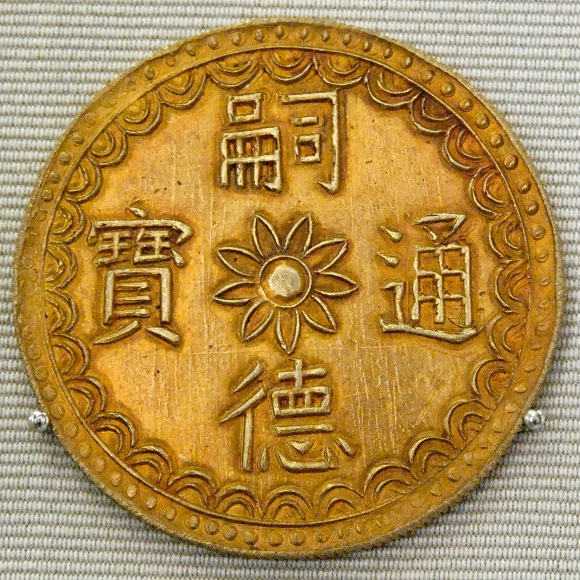 Gold lạng of Tự Đức, fourth emperor of the Nguyễn Dynasty of Vietnam, 1840–1847.